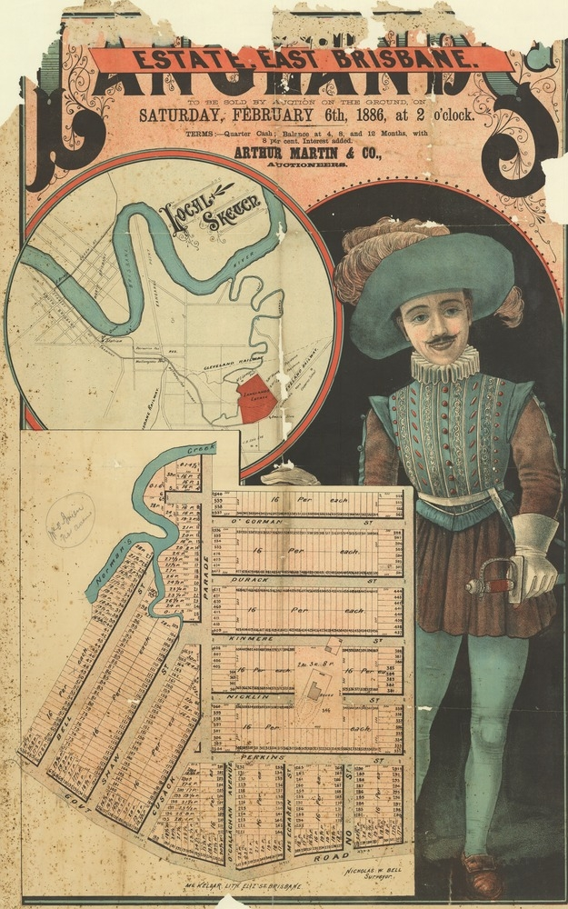 Creator: Arthur Martin & Co., Auctioneers ; Nicholas W. Bell, Suveyor. Location: Coorparoo, Brisbane, Queensland. Description: Plan of allotments to be sold Saturday, 6th February, 1886. Estate covers area now in Coorparoo and Greenslopes. With sketch illustration (uniformal human figure) Published by McKellar lithographer (Brisbane). 104 x 60 cm. Map includes conditions of purchase, with locality map. Read more about SLQ's map collections: View this image at the State Library of Queensland: Information about State Library of Queensland’s collection: You are free to use this image without permission. Please attribute State Library of Queensland.